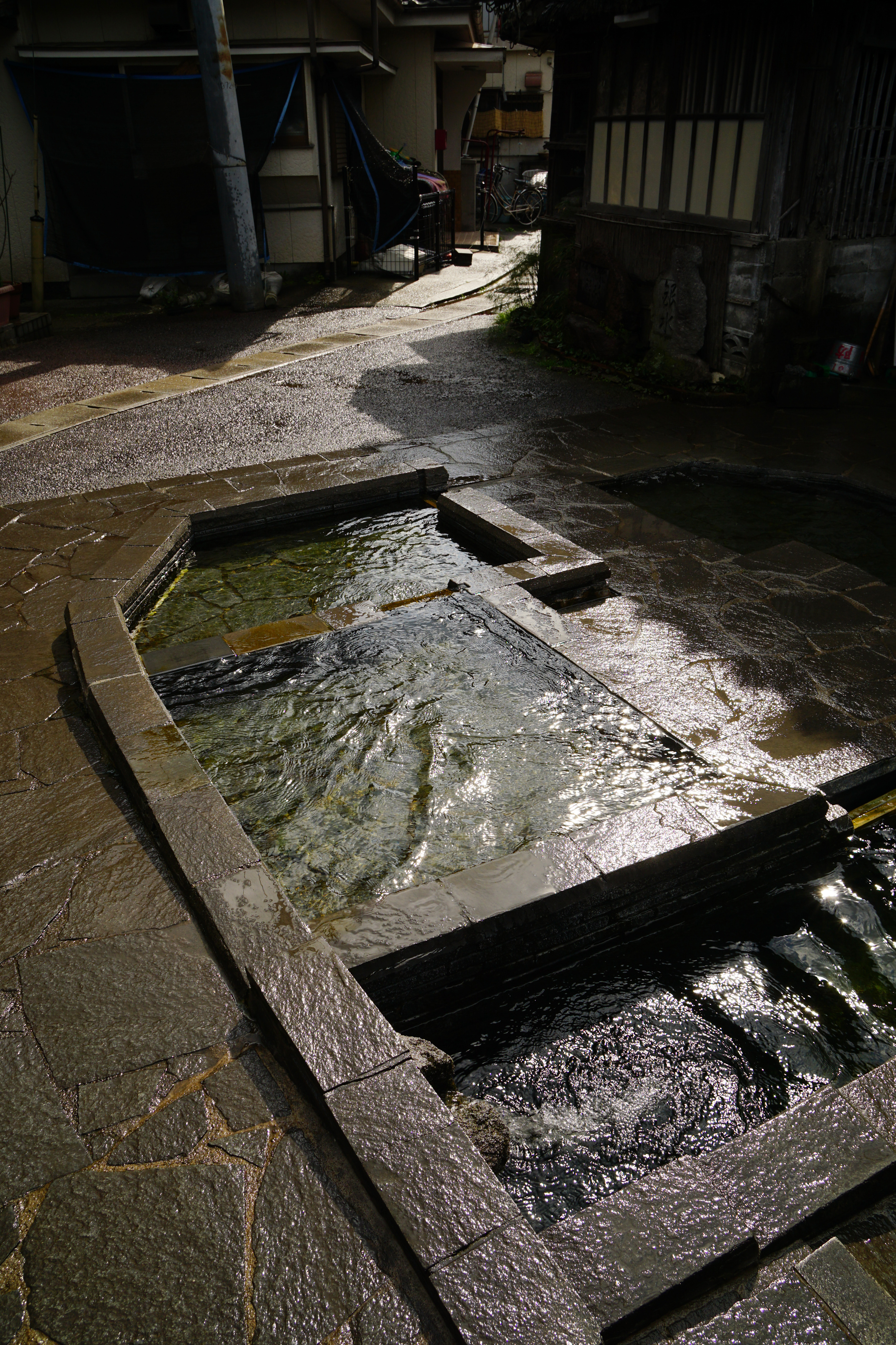 "Hamanokawa spring water" of Shimabara spring water in Shimabara, Nagasaki prefecture, Japan.